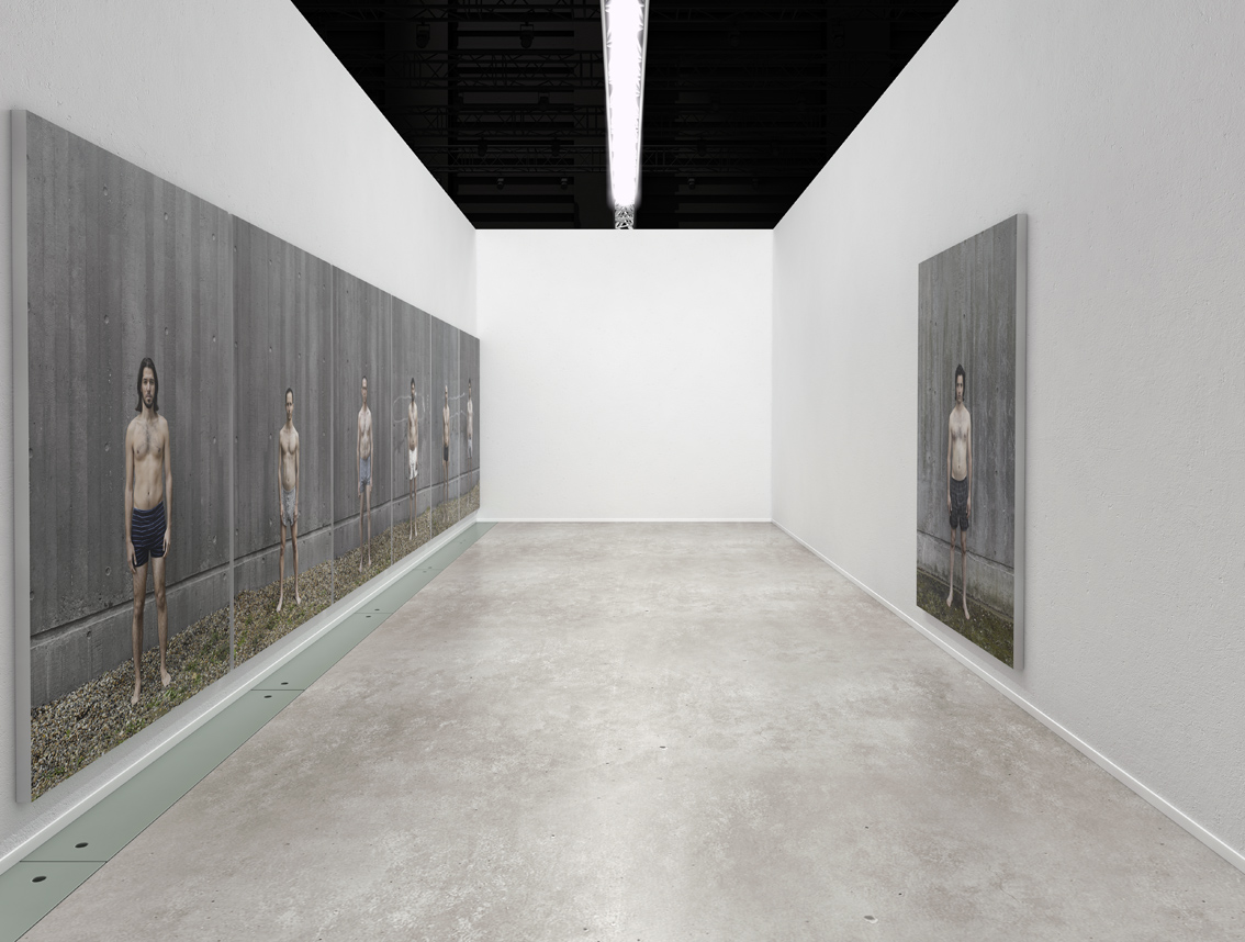 Steve Sabella, Settlement - Six Israelis & One Palestinian, 2008 / 2010. Installation of life size images. The image of the Palestinian faces the six Israelis. That is, the work hangs on two opposite facing walls. 230 cm / 164 cm each mounted on aluminum + 5 cm aluminum edge. limited edition of 3 + 2 AP